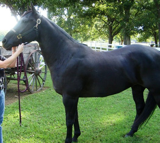 Photograph of Bullet, the horse riden by the Oklahoma State University Spirit Rider. Taken at his home ranch near Tulsa, OK.